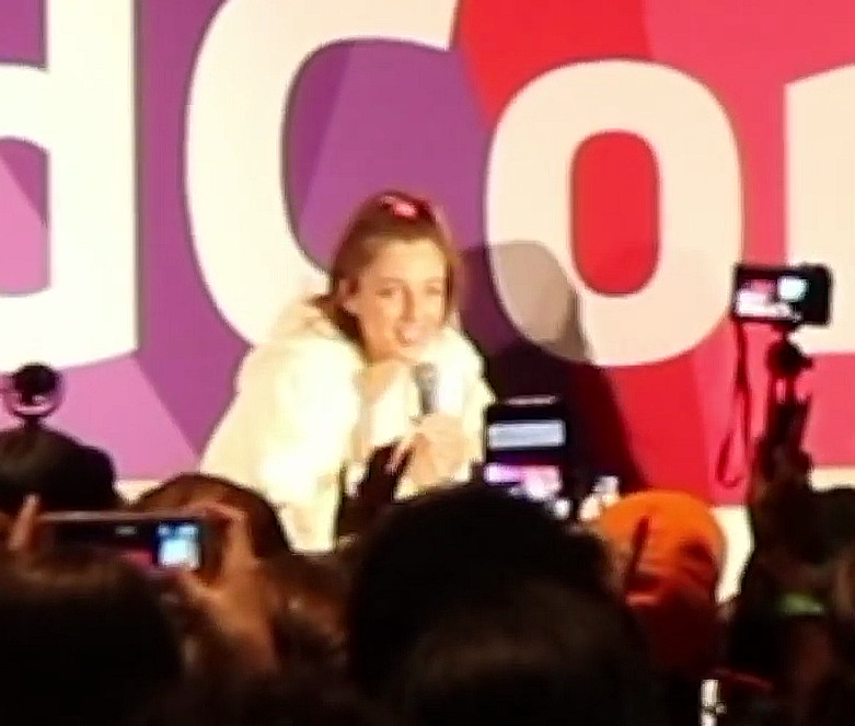 Emma Chamberlain isolated from a Creative Commons licensed video